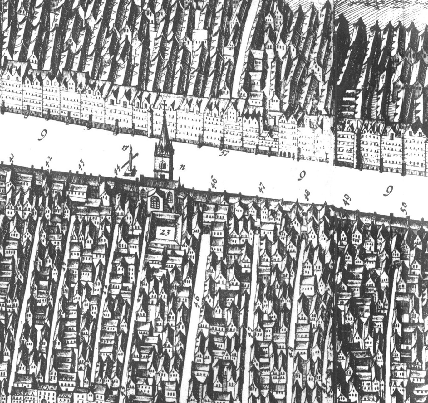 The closes (entryways) and wynds (alleyways) of the Old Town follow the lines of mediaeval burgage plots, from the Rothiemay Map of Edinburgh, 1690